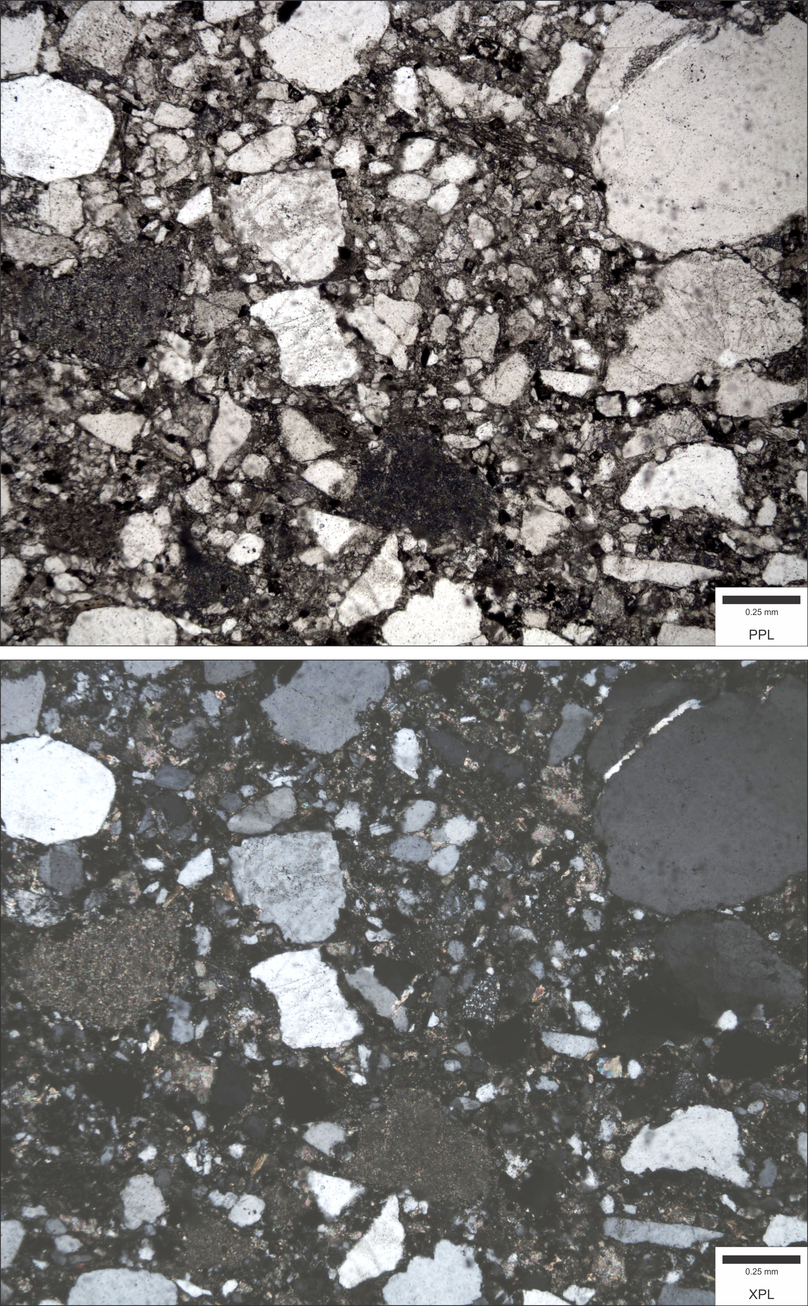 Photomicrograph of a lithic wacke (sandstone); unknown unit and age. Top image is in plane polarized light (PPL); bottom image is in cross polarized light (XPL). Blue epoxy fills pore spaces.